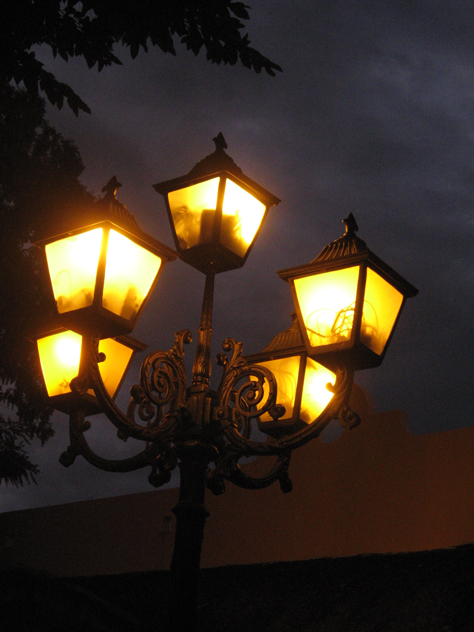 Traditional street lanterns